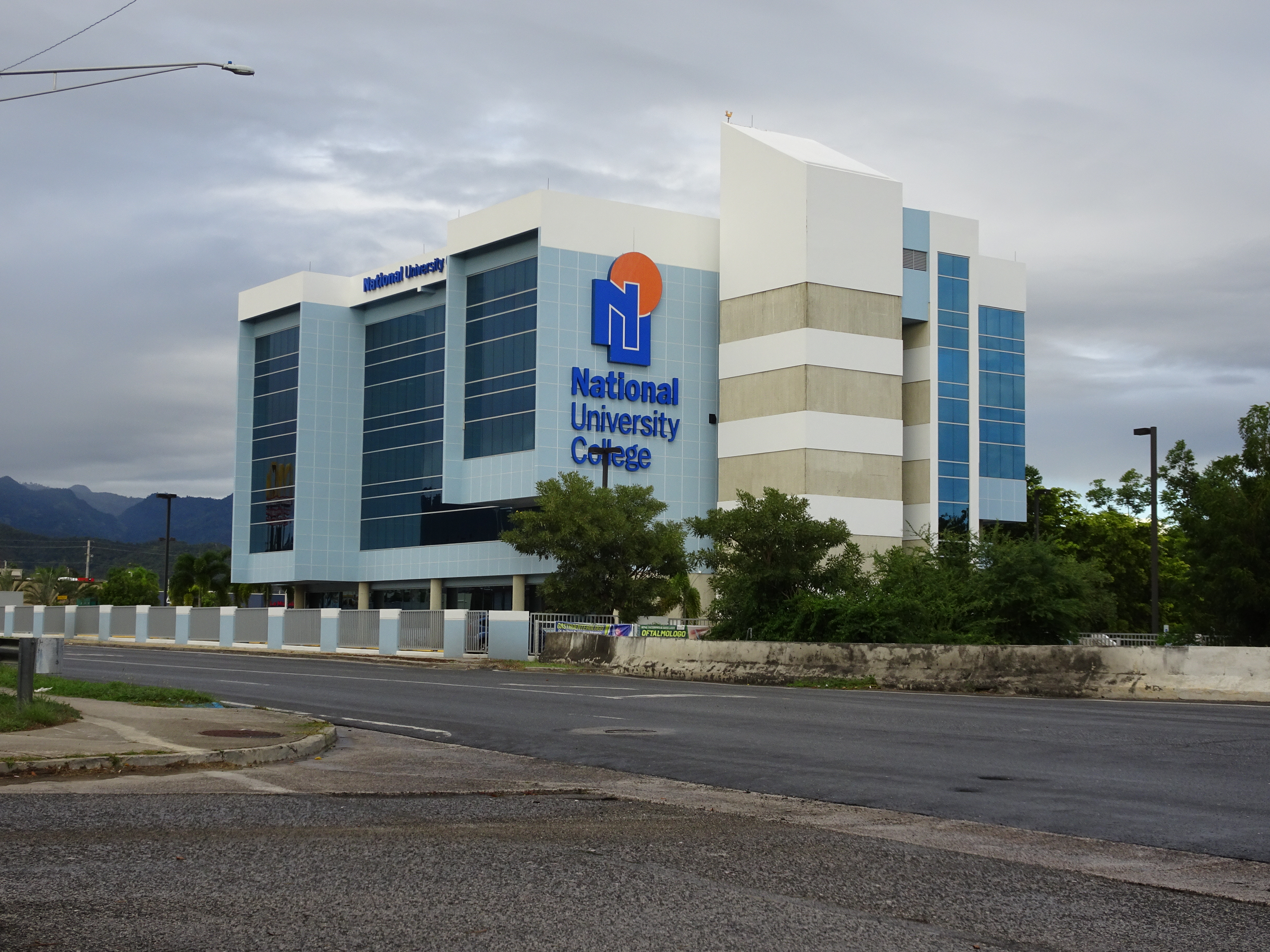 National University College, PR-506, Bo. Coto Laurel, Ponce, Puerto Rico, mirando al noreste (DSC02065)